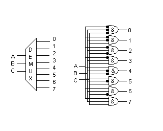 Demultiplexer